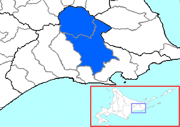 The location of Kawakami District in Kushiro Subprefecture, Hokkaido Prefecture, Japan.